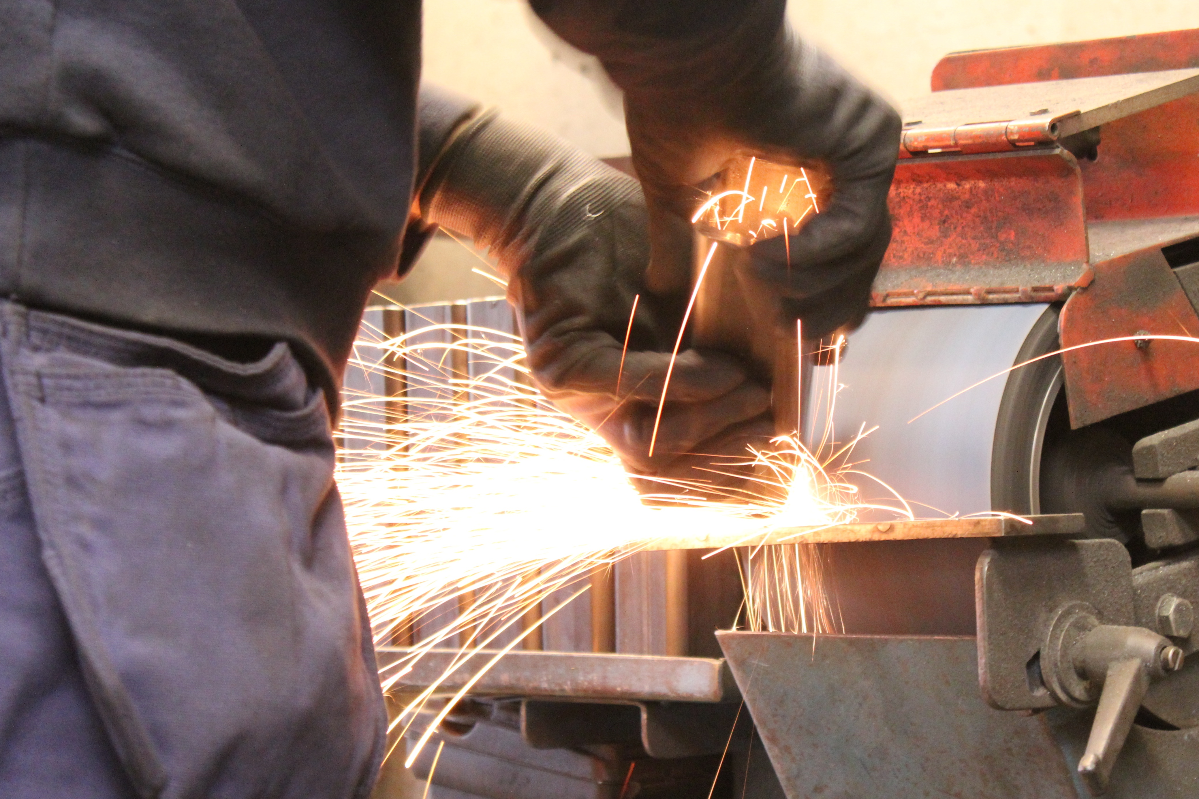 Man grinding a square tube.